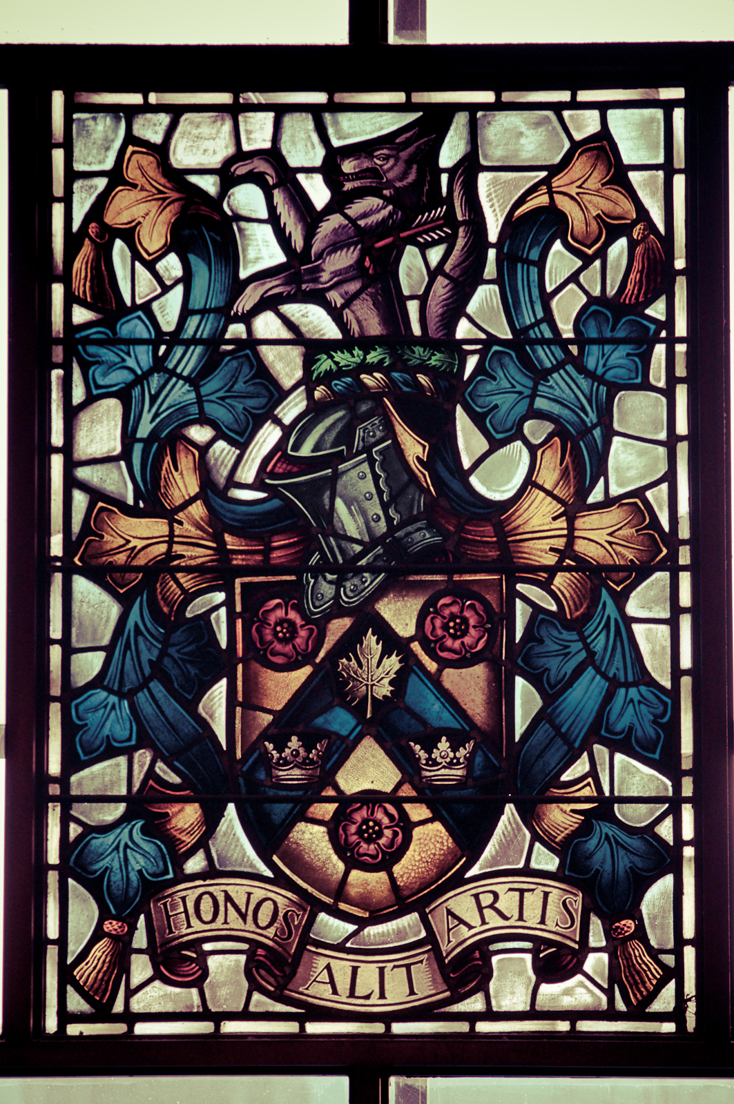 Gerstein Library of Technology Crest